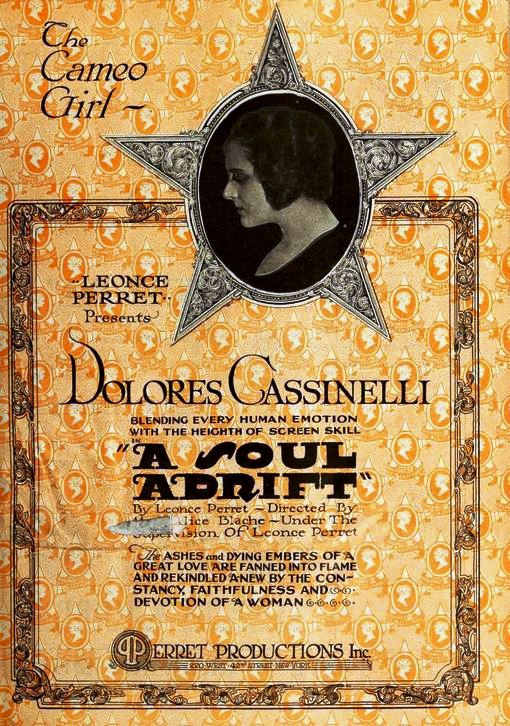 Ad for the American film Tarnished Reputations (1920) (under its working title A Soul Adrift) with Dolores Cassinelli, on page 285 of the January 18, 1919 Moving Picture World.